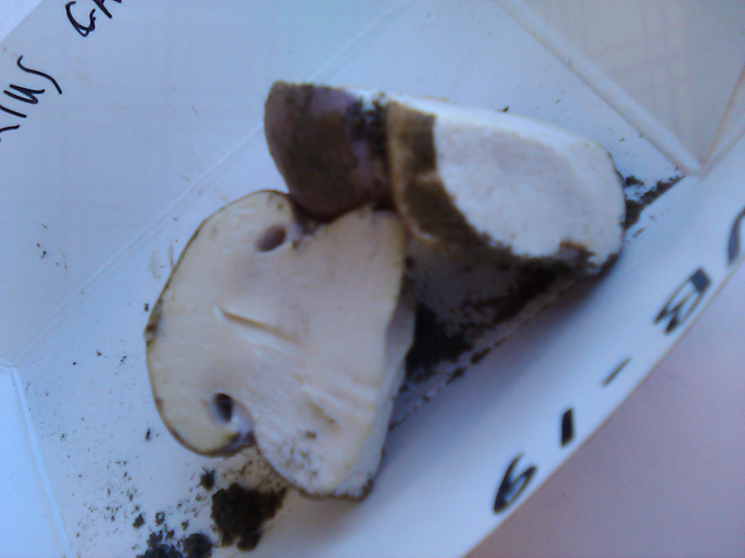 I believe this is Cortinarius caesiolamellatus. I found it growing with white pine in Upstate NY. Had cortina, lilac gills, parts of cap and upper stem were lilac, the rest buff. Stubby, abruptly marginate stem base. Matches description at Accessed Oct 2019